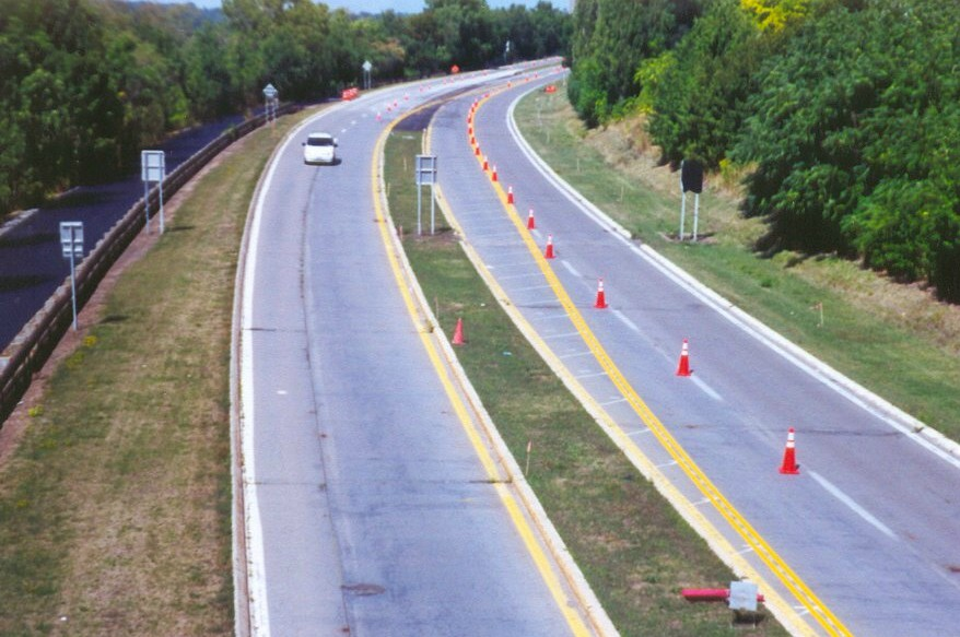 View of the Robert Moses State Parkway looking northbound from the pedestrian walkway near the Aquarium on August 28, 2001. At this time, NYSDOT was in the early stages of converting the RMSP from the Aquarium north to Lewiston into a two-laned road. Today, the view of this scene is not much different, except for the removal of the traffic cones that line the road.